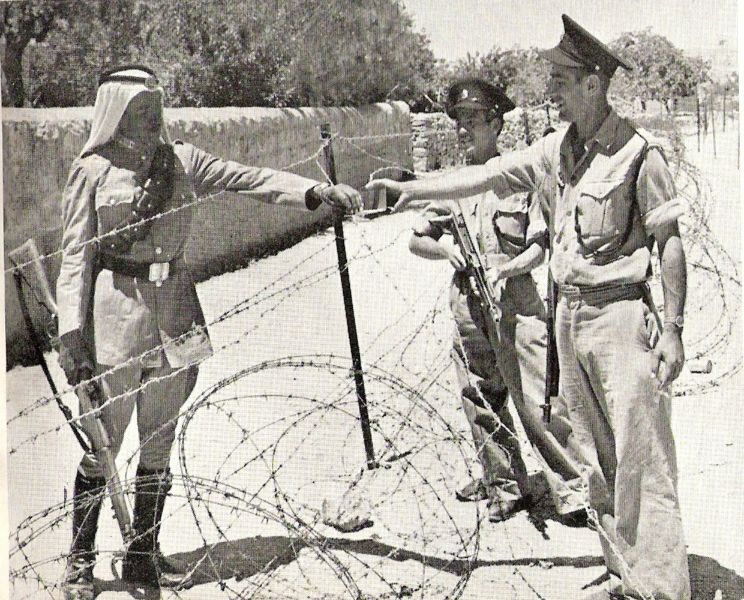 Israeli policemen meet a Jordanian legionnaire near the Mandelbaum Gate on the ceasefire line that went through Jerusalem between 1949 and June 1967